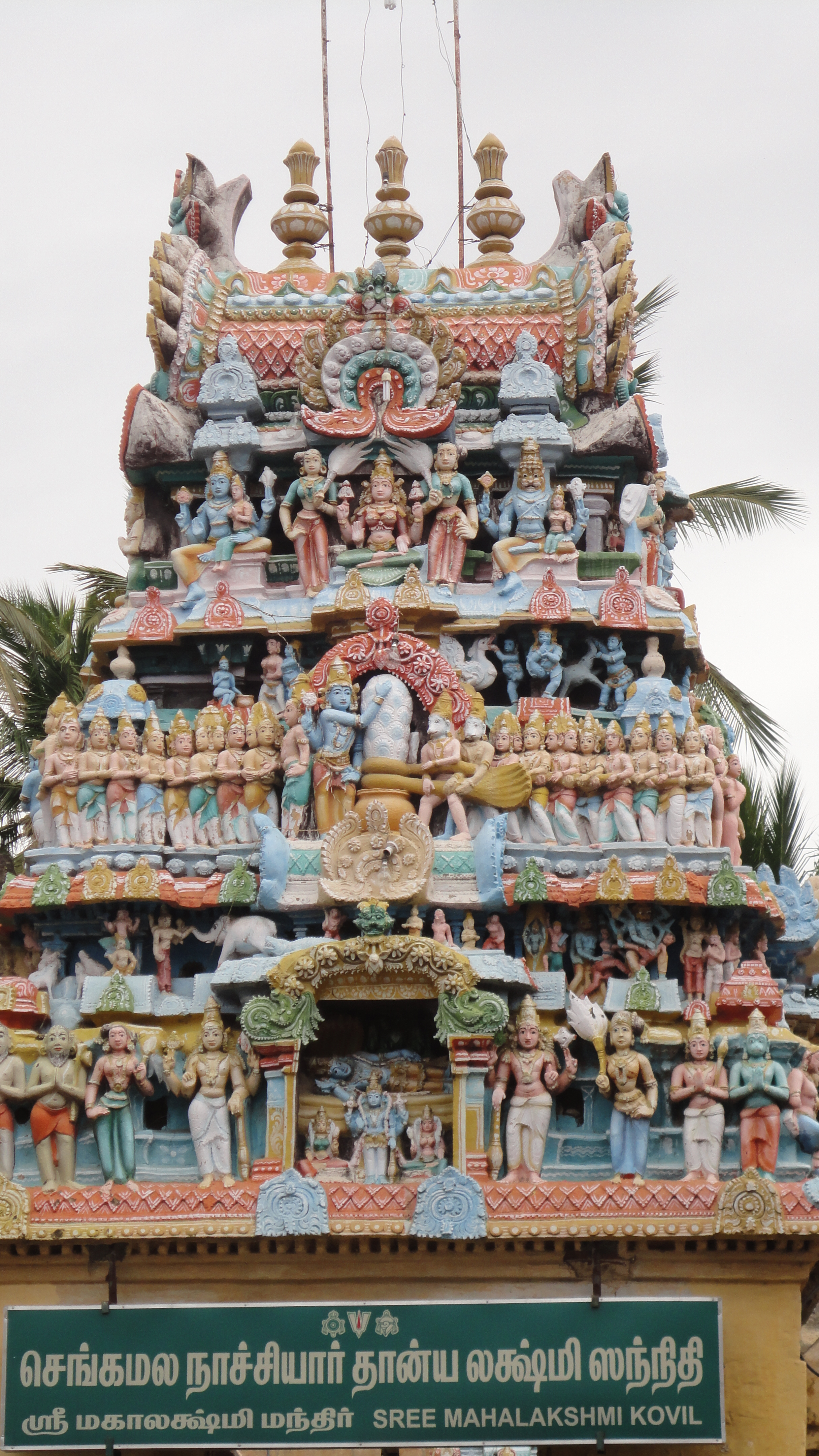 THE TEMPLE IS LOCATED INSIDE THE SRIRANGAM TEMPLE AREA, Tiruchirappalli